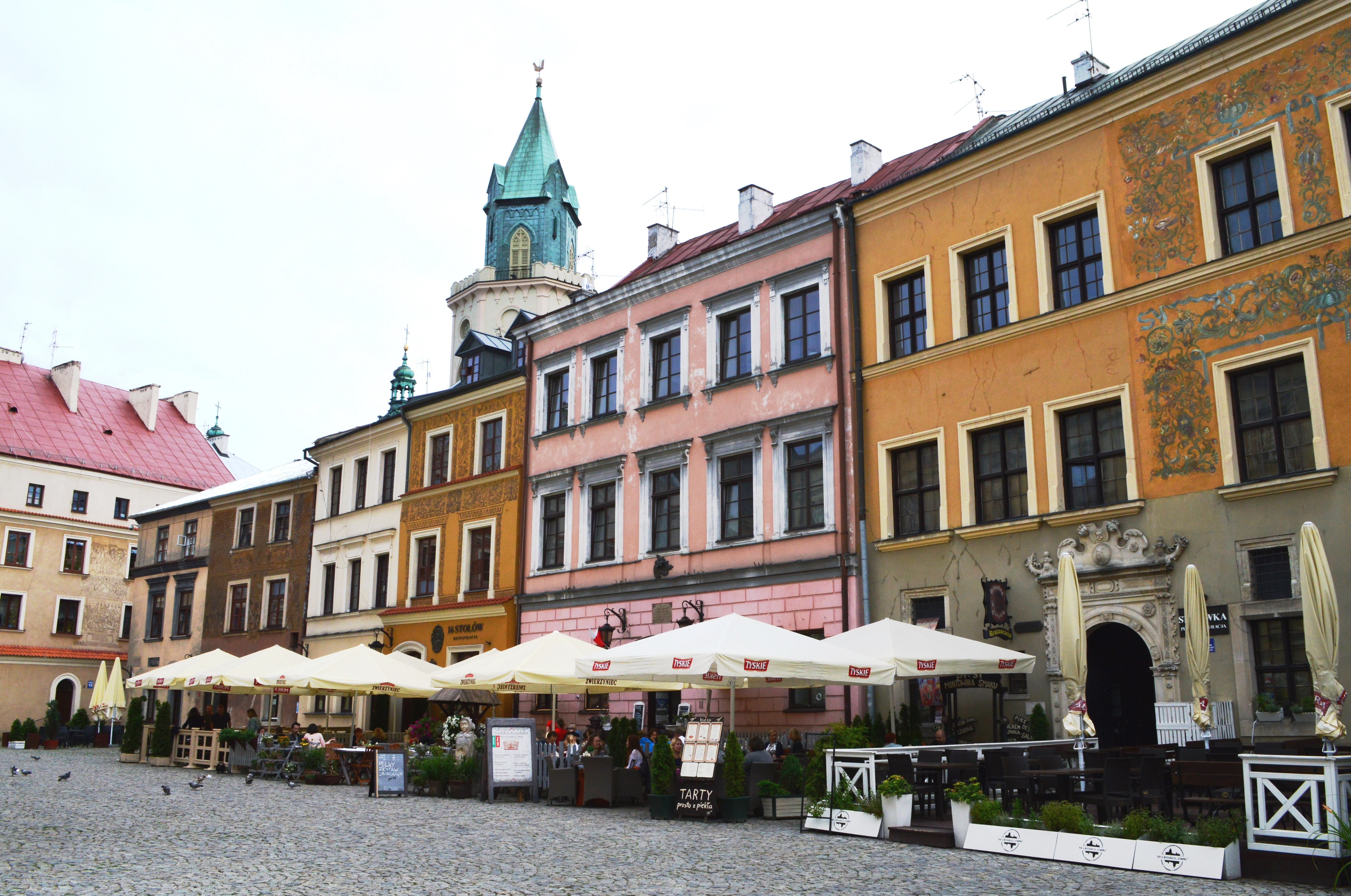 Lublin is the ninth largest city in Poland and the second largest city of Lesser Poland. It is the capital and the center of Lublin Voivodeship (province) and is the largest Polish city east of the Vistula River. Lublin, until the partitions at the end of the eighteenth century, was a royal city of the Crown Kingdom of Poland. Its delegates and nobles had the right to participate in the Royal Election. In 1578 Lublin was chosen as the seat of the Crown Tribunal, the highest Appeal Court in the Polish-Lithuanian Commonwealth and for centuries the city has been flourishing as a centre of culture and higher learning, together with Kraków, Warszawa and Lwów (Lviv). Although Lublin was not spared from severe destruction during World War II, its picturesque and historical Old Town has been preserved. The district is one of Poland's official national Historic Monuments (Pomnik historii), as designated May 16, 2007, and tracked by the National Heritage Board of Poland. The Scotch Mist Gallery contains many photographs of historic buildings, monuments and memorials of Poland.